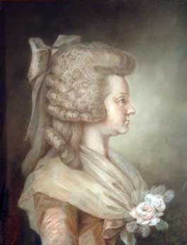 Portrait of Madame de Lamballe (1749-1792)